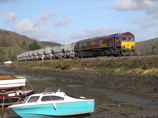 Freight Train through Golant. The railway branch line between Lostwithiel and Fowey was closed to passenger traffic in the 1960's but is still used for transporting china clay to Fowey harbour for export by ship. This photo shows a train on the embankment which separates the harbour at Golant from the Fowey estuary.